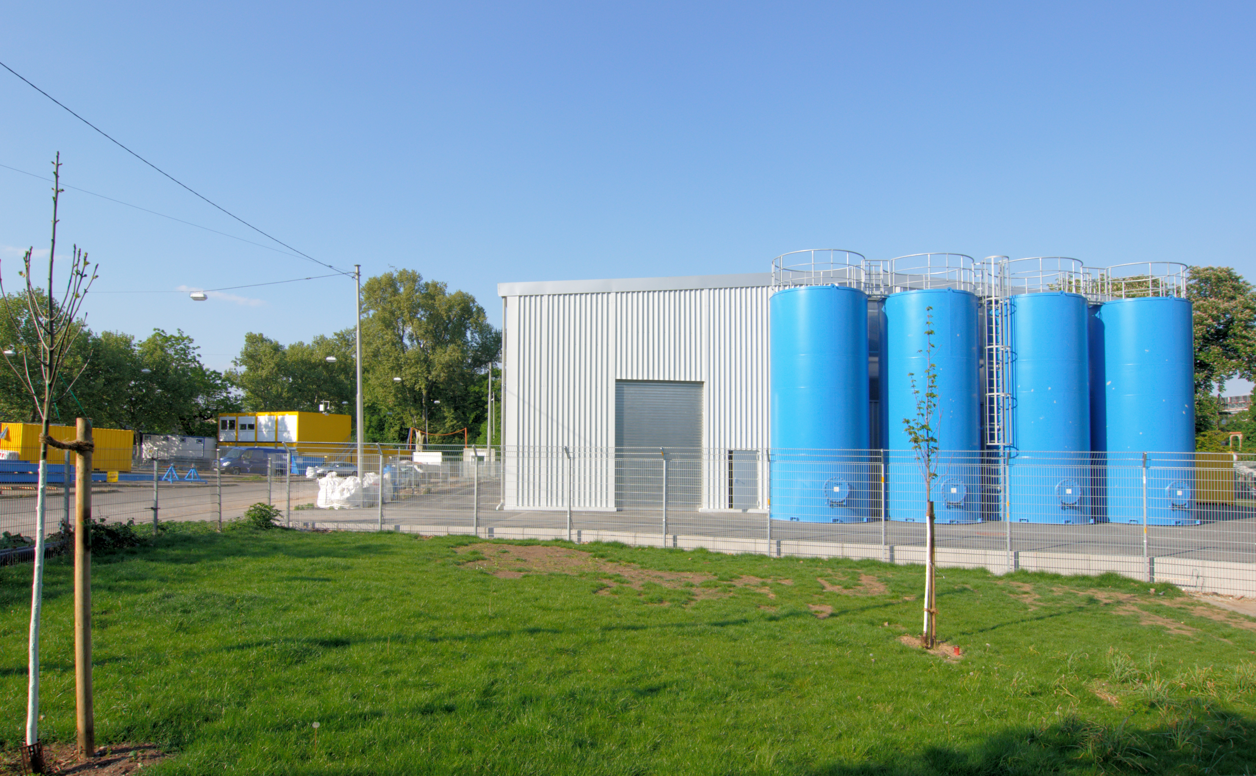 Building for the ground water management of Stuttgart 21